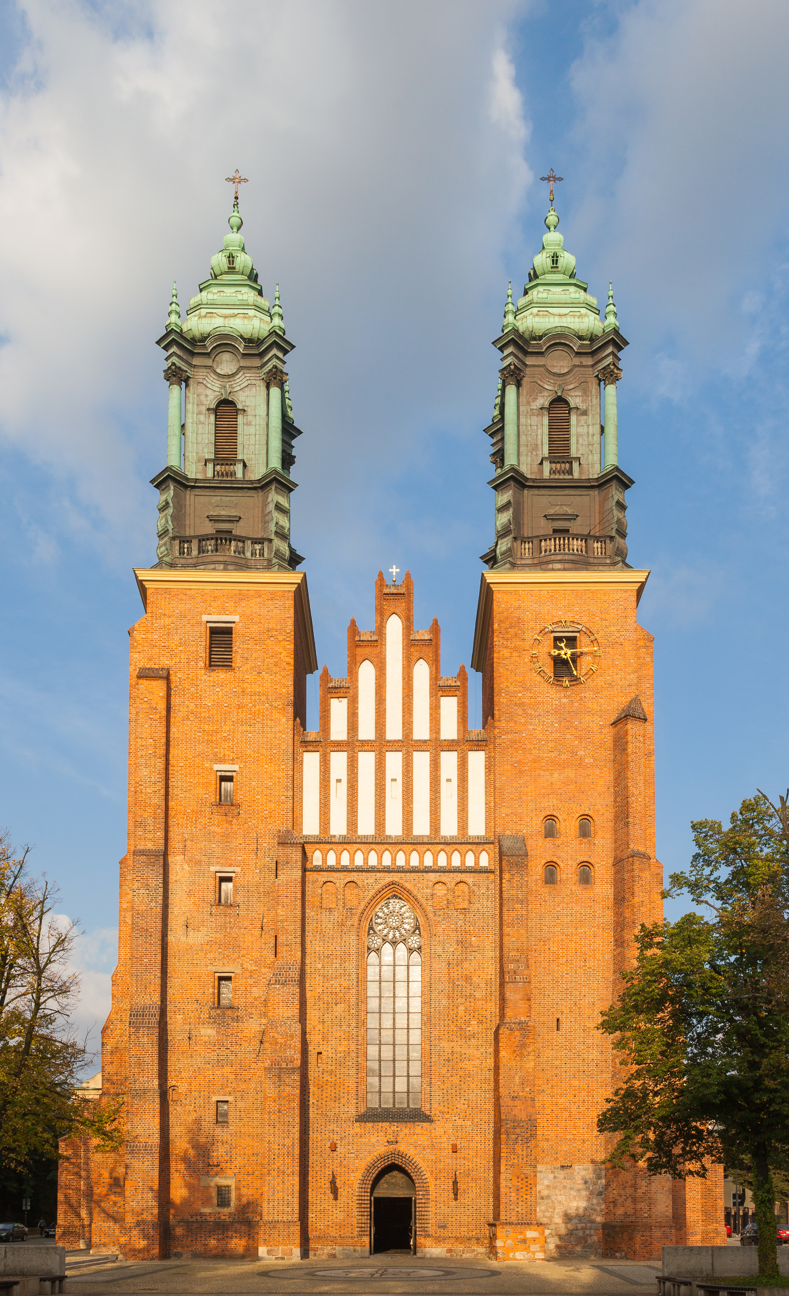 Poznan Cathedral, Poznan, Poland